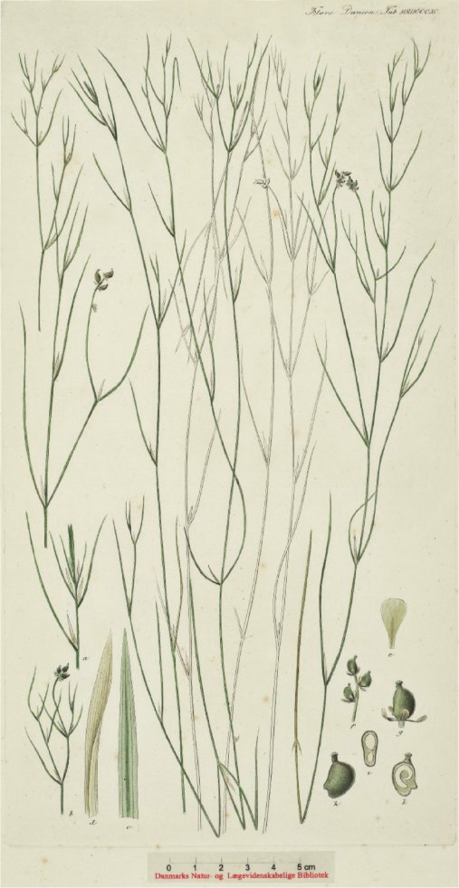 Potamogeton trichoides